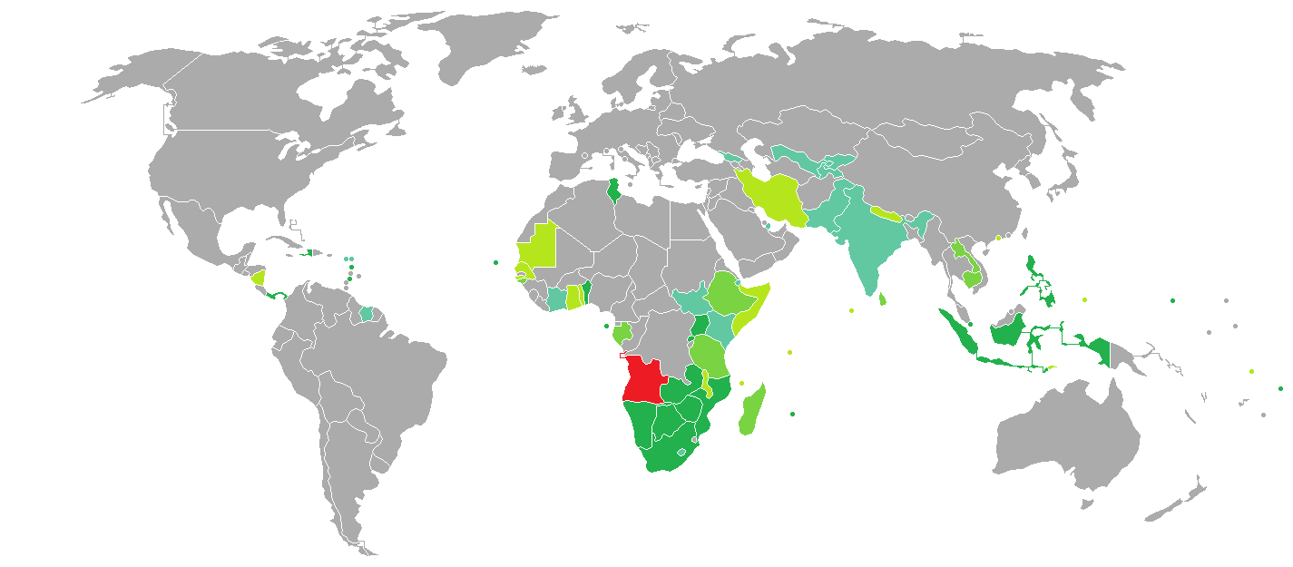 Visa requirements for Angolan citizens. Angola Visa free access Visa on arrival eVisa Visa available both on arrival or online Visa required